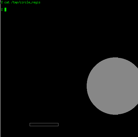 Demo showing the ReGIS (Remote Graphics Instruction Set) emulation of an xterm.